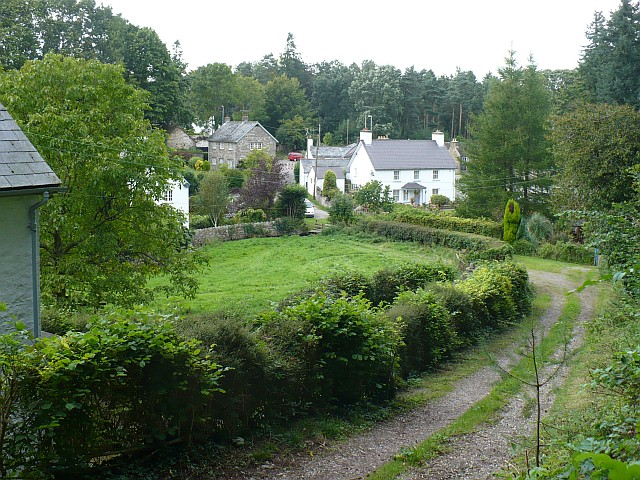 The southern end of Llanover village An area of scattered houses in a small valley through which runs the Rhyd-y-Meirch stream which means ‘Ford of the Stallions’.